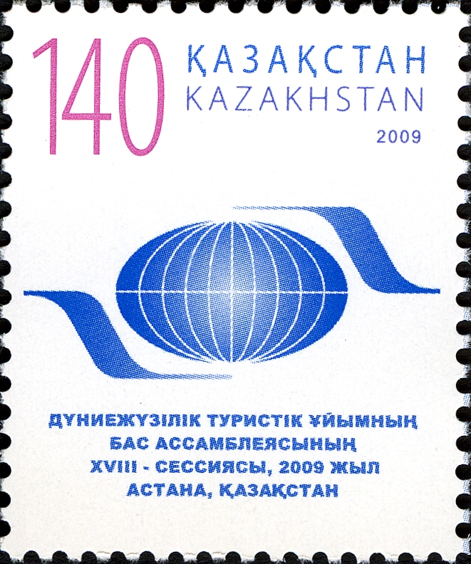 Kazakhstan postage stamp dedicated to the 8th Session of the World Tourist Organization